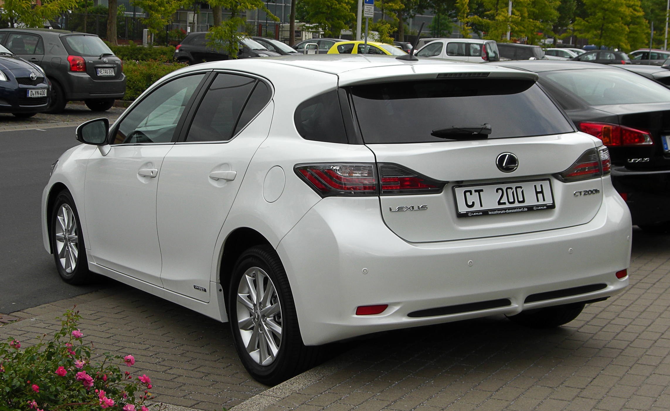 Lexus CT 200h Dynamic Line (ZWA10)